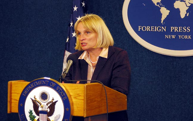 Wendy Chamberlin, Assistant Administrator for Asia and the Near East, U.S. Agency for International Development at New York Foreign Press Center briefing on “Reconsruction and Humanitarian Relief Efforts in Iraq."